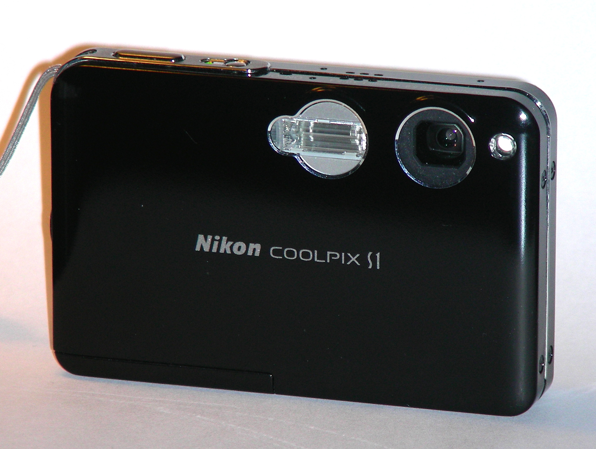 Nikon Coolpix model S1, Black version